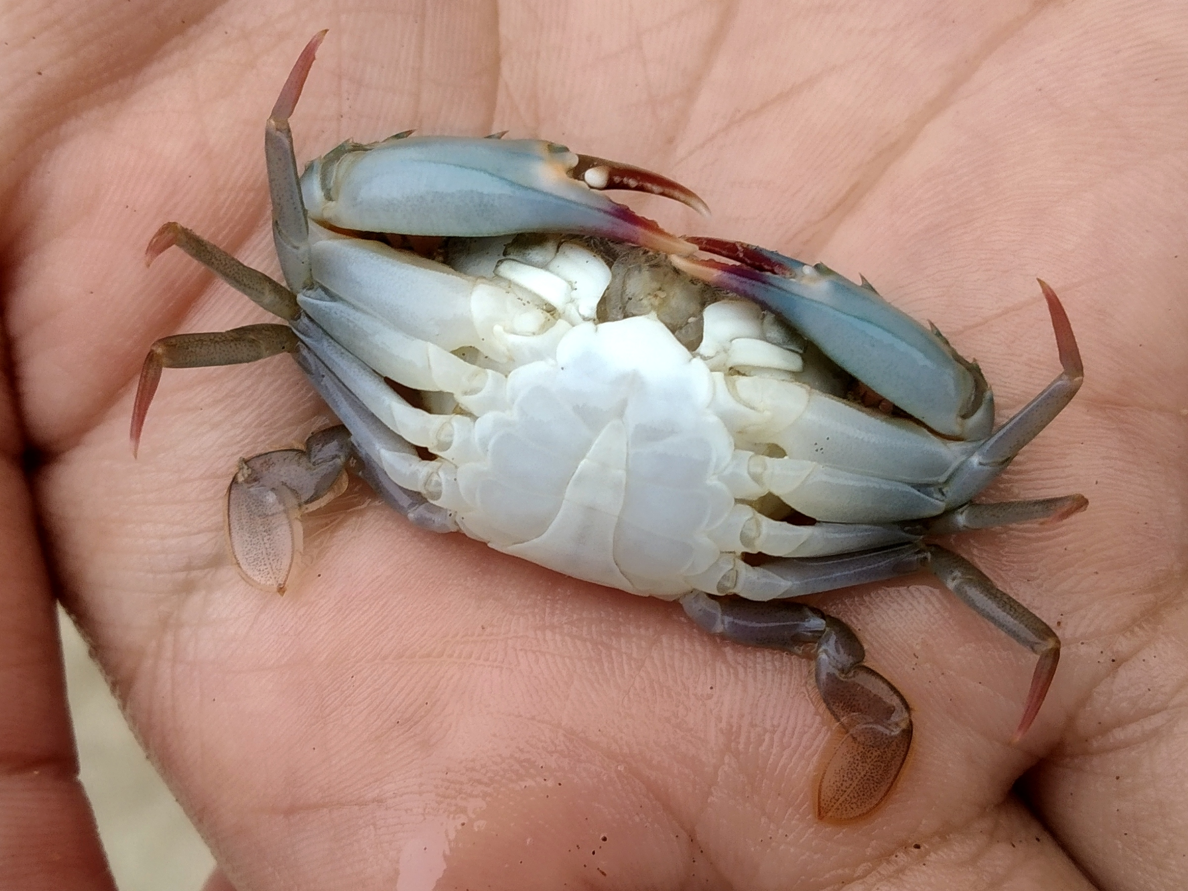 Powder blue-clawed swimming crab (Thalamita crenata); male, ca. 2.5cm CL & 4cm CW. From Pandeglang, Banten, Indonesia.